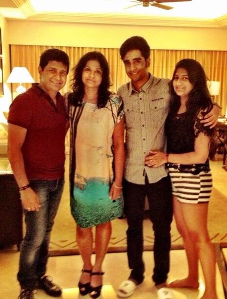 KK with wife Jyothy, son Nakul, and daughter, Taamara